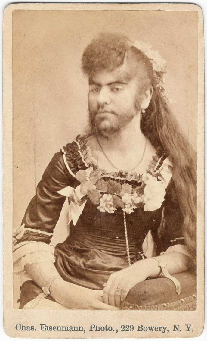 Annie Jones